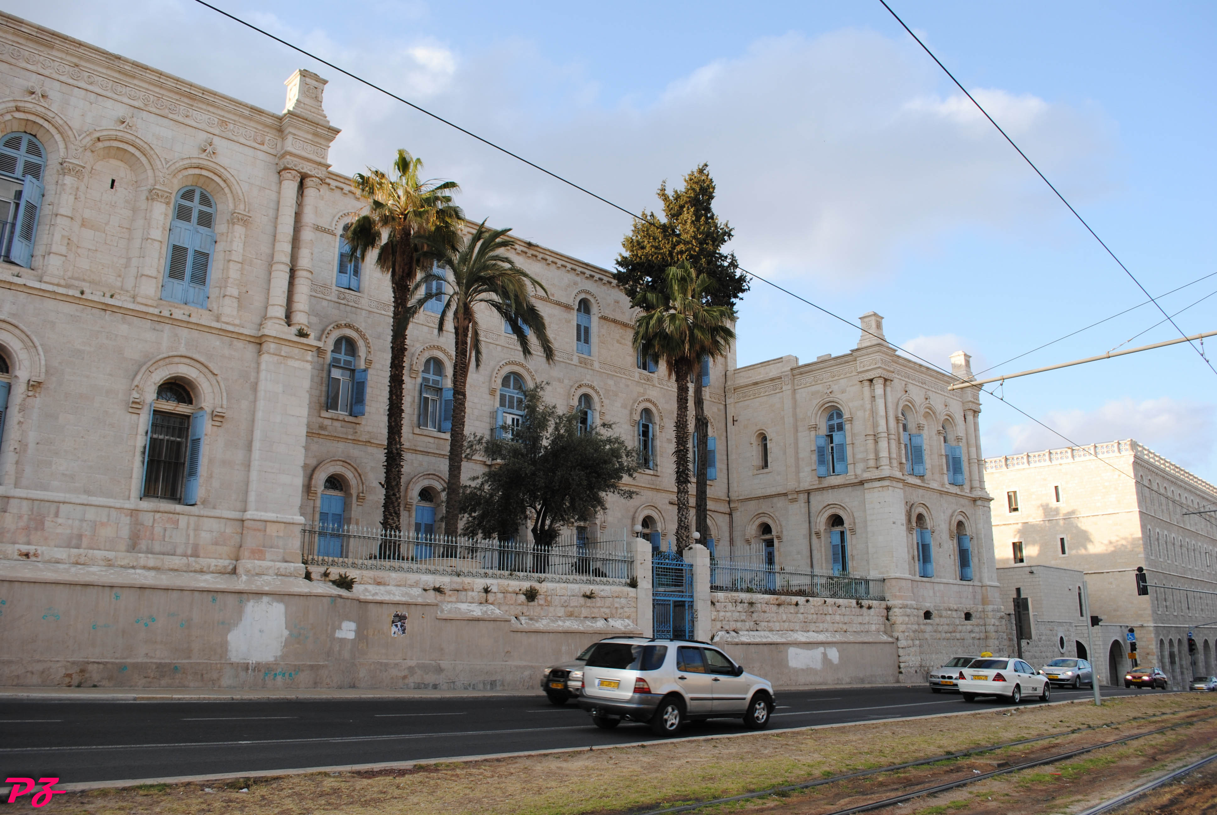 Saint Louis Hospital, Jerusalem.